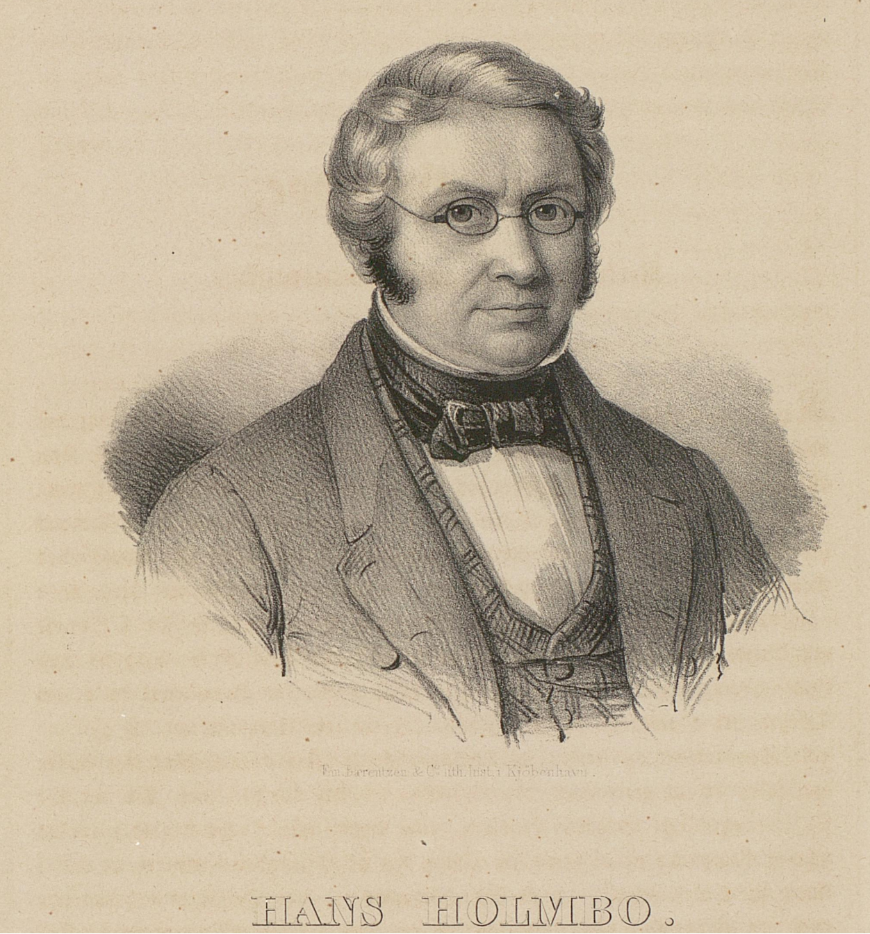 Lithograph of Hans Holmboe (1798-1868), by "Em. Bærentzen & Co. Lith. Inst. i Kiøbenhavn"